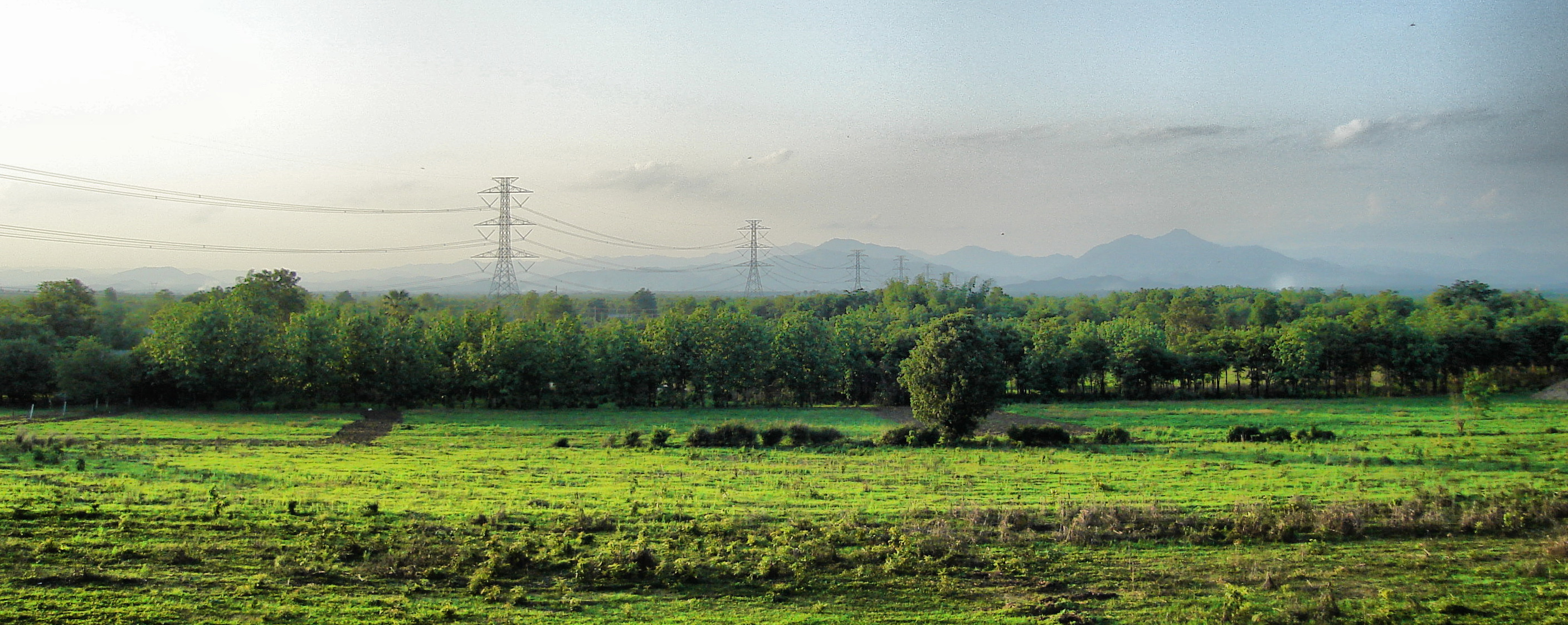 Wat Nong Plong Location: Khung Taphao subdistrict, Mueang Uttaradit, Uttaradit Province, Thailand.